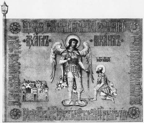 Dmitry Pozaharsky banner. 1612